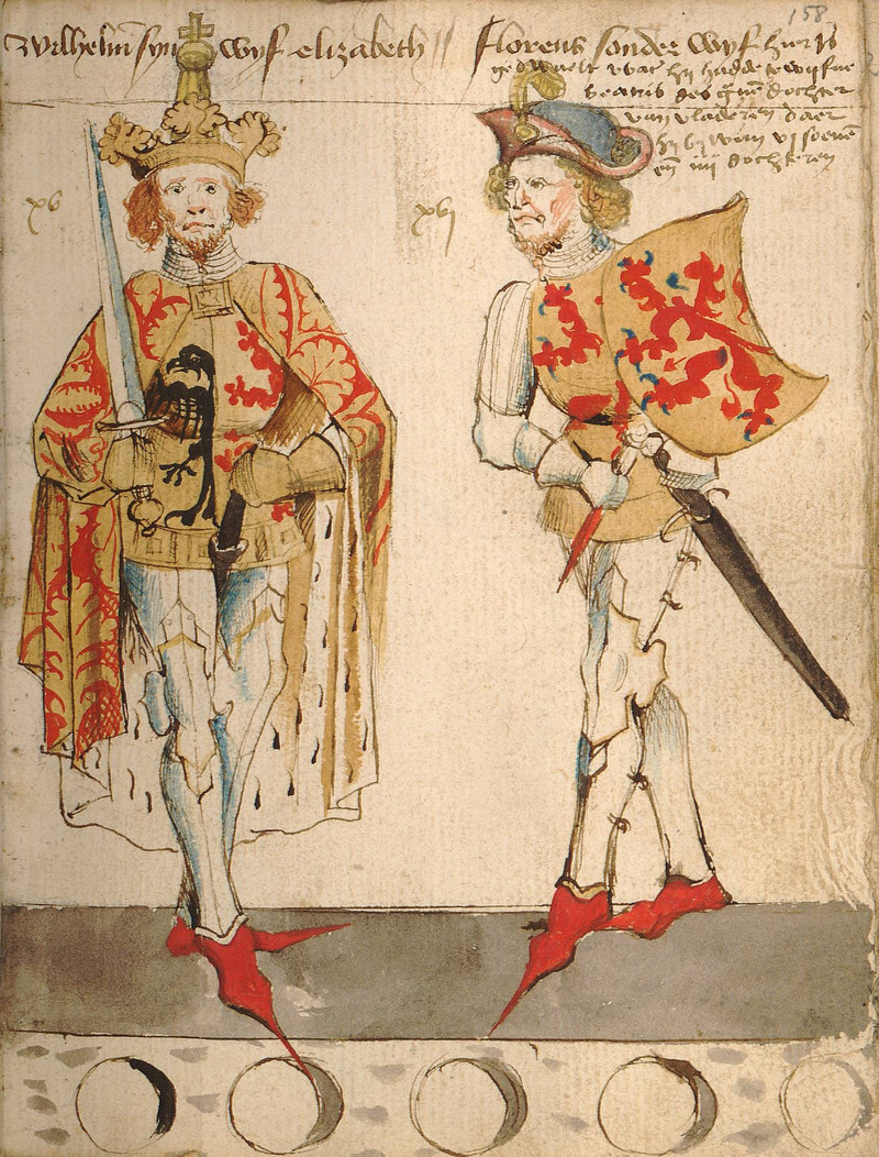 Depiction of Counts William II (left) and Floris V of Holland (right)